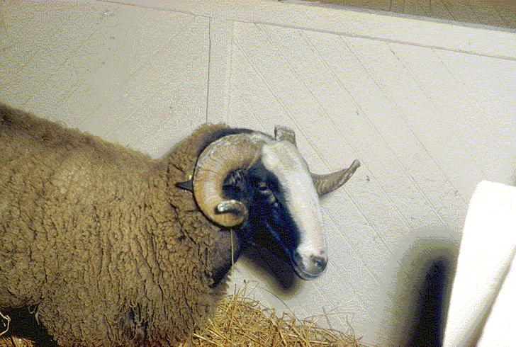 Bizet sheep Salon international de l'Agriculture, Paris, 1962